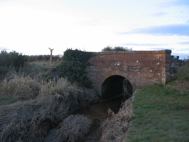 Bridge over the Brow Burn A view looking to the north showing the small bridge over the Brow Burn at Brow Well. A Millennium milepost, marking National Cycle Route 7, can be seen to the left.